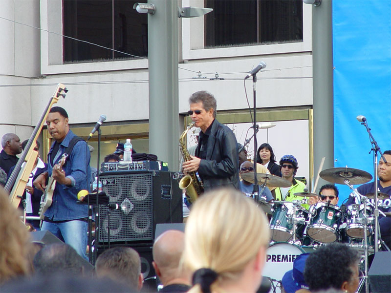 Description Dave Sanborn plays in San Francisco Date October 17, 2003 Location Union Square, San Francisco, California Photographer Franco Folini Other versions: Cropped version only showing Sanborn: File:David Sanborn (2006).jpg